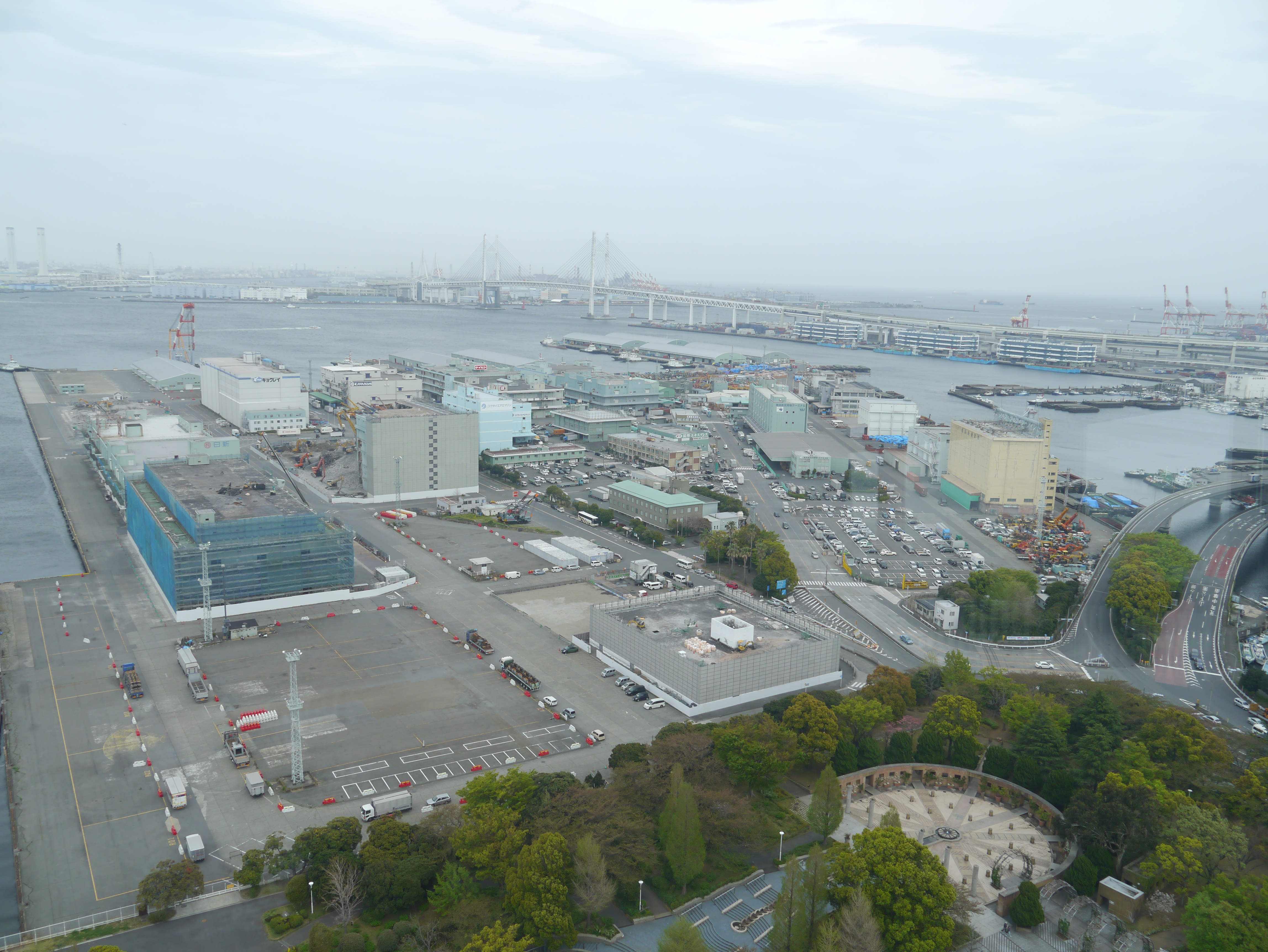 View from the Yokohama Marine Tower to Yokohama, Yokohama, Kanagawa Prefecture, Kanto Region, Japan